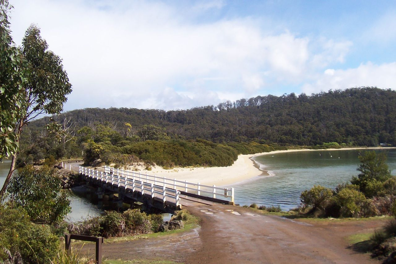 Water inlet in Cockle Creek, South East Tasmania, Australia